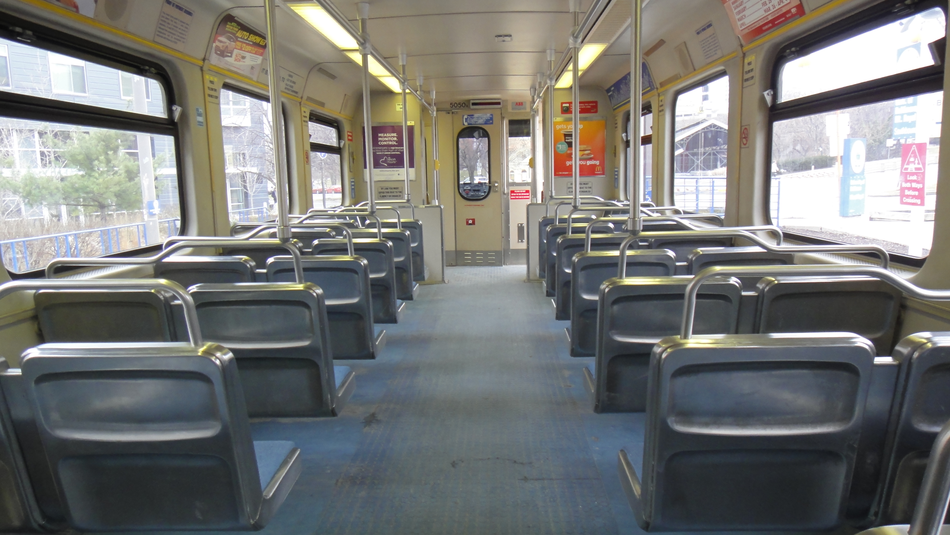 Interior of an LRV, built by ABB, on the Baltimore Light Rail system